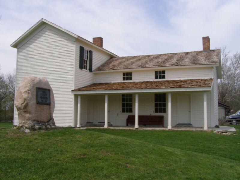 Home of Chief Richardville(Miami), outside of Huntington, Indiana